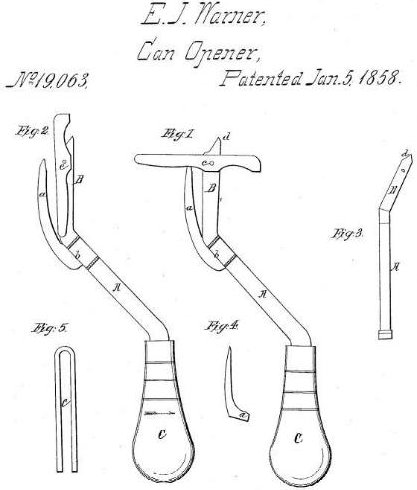 US Patent No. 19,063 Can opener